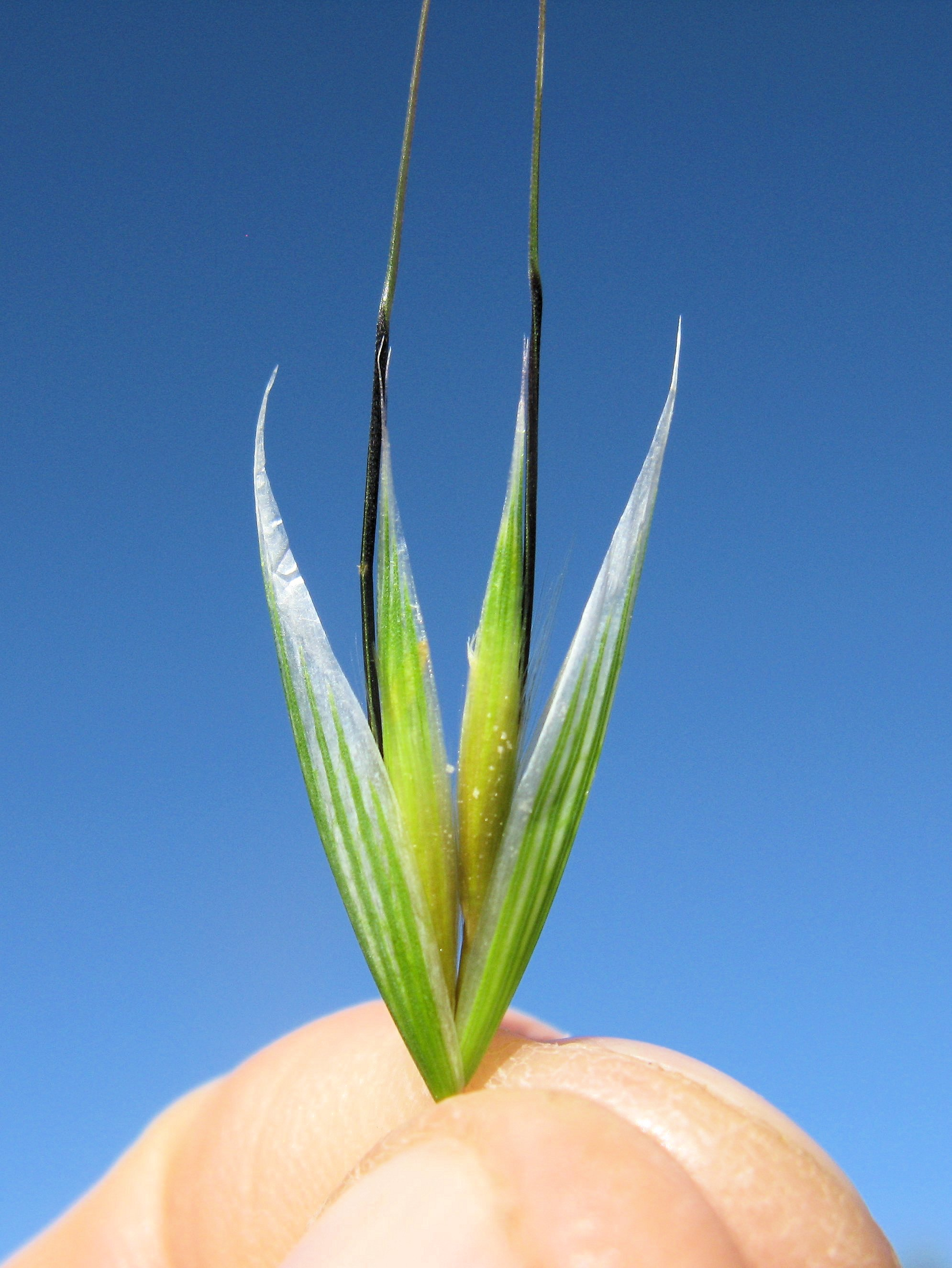 Spikelets 2-3-flowered. Along, twisted, bent awn arises midway down each floret.